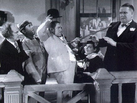 Publicity photo for The Three Stooges short subject Disorder in the Court. Copyright Columbia Pictures, 1936. Used to illustrate film being described.